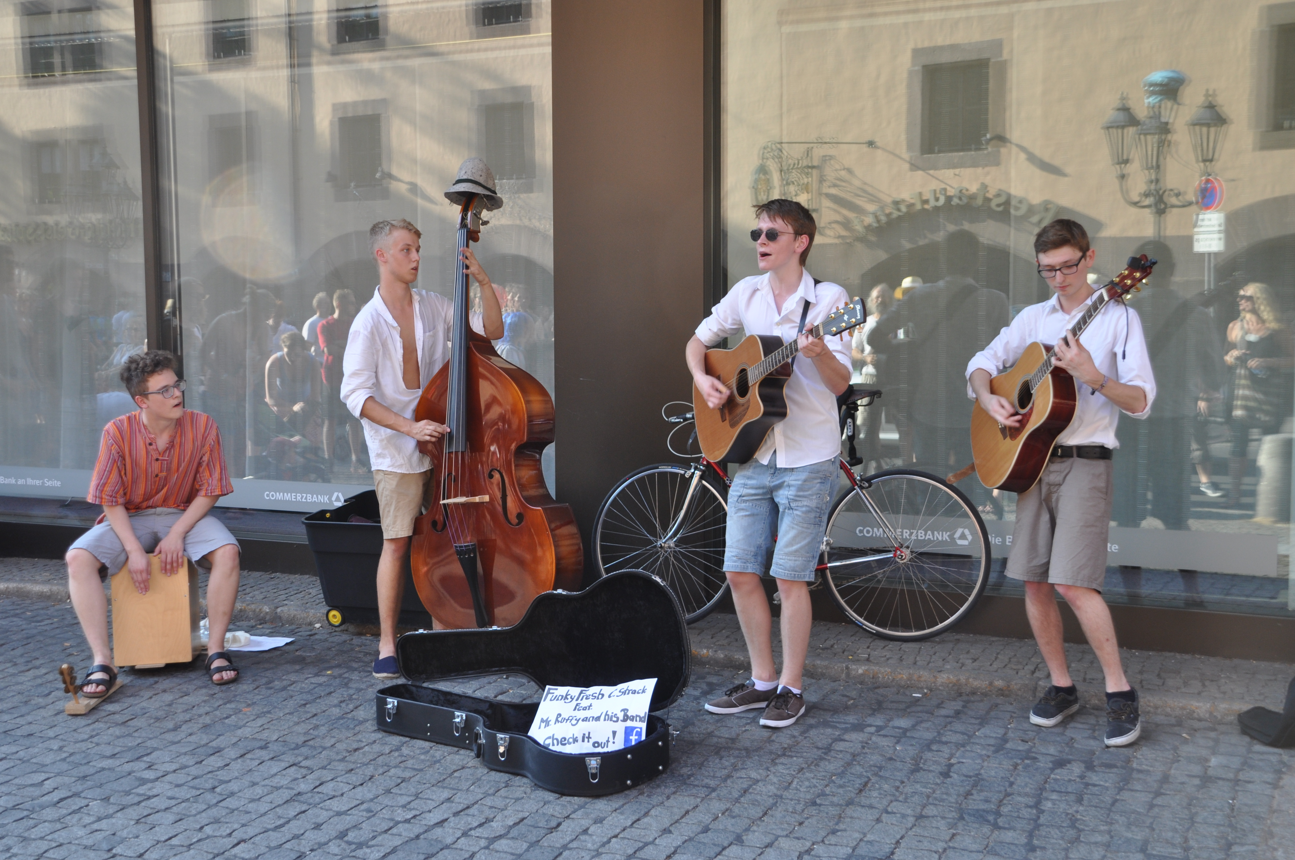 Street music / busking at the 38th music festival "Bardentreffen" 2013 in Nuremberg, Germany